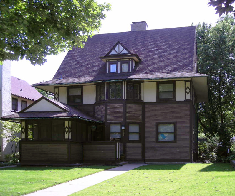 Harry C. Goodrich House (1896) in Oak Park, IL. Designed by Frank Lloyd Wright. Image has been cropped and photo edited to disguise inprogress siding repairs along the bottom of the house.